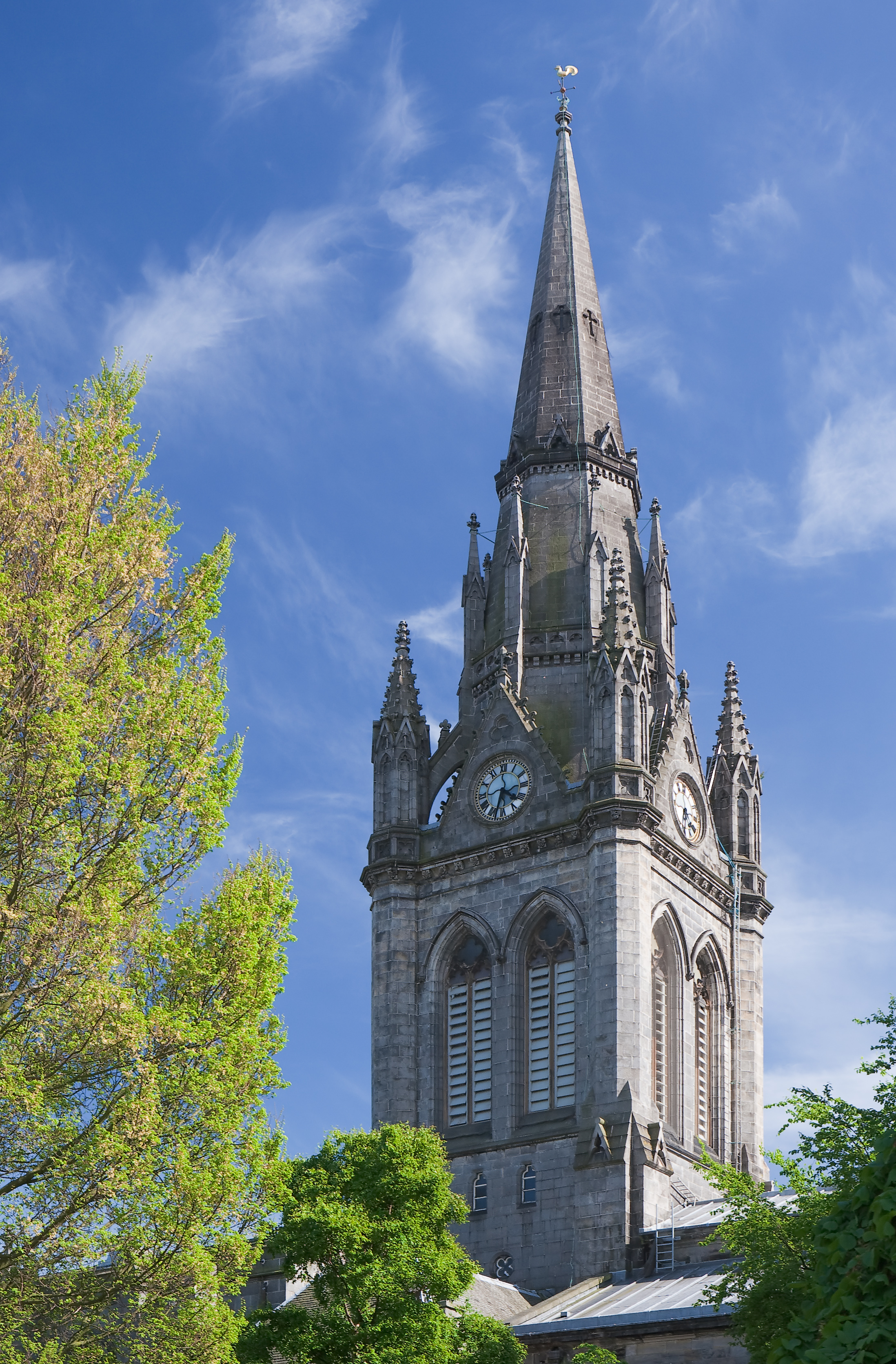 Tower of St. Nicholas Kirk (church) in Aberdeen, Scotland